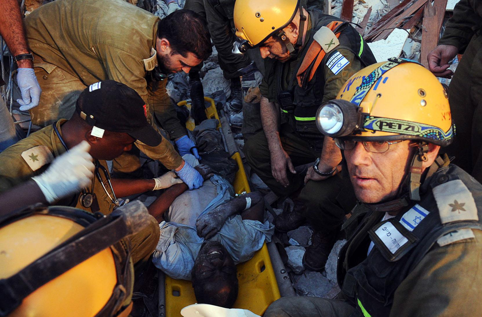 January 17, 2010. The Israel Defense Forces search and rescue team extracted a 52 year old Haitian government employee, trapped in the ruins of the customs office in Port-au-Prince after 6 hours of work. The man was trapped under the rubble for 125 hours before being rescued by the team and was then taken to the IDF field hospital for treatment. The man was able to communicate his location via SMS. After the devastating earthquake which struck Haiti in January 2010, Israel sent an aid delegation with over 250 personnel to help with search and rescue efforts and establish a field hospital.